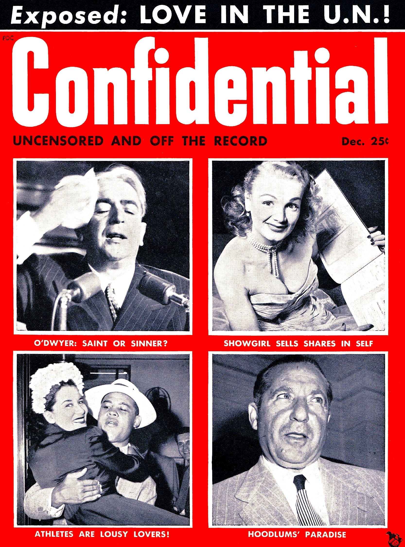 Confidential magazine cover for December 1952